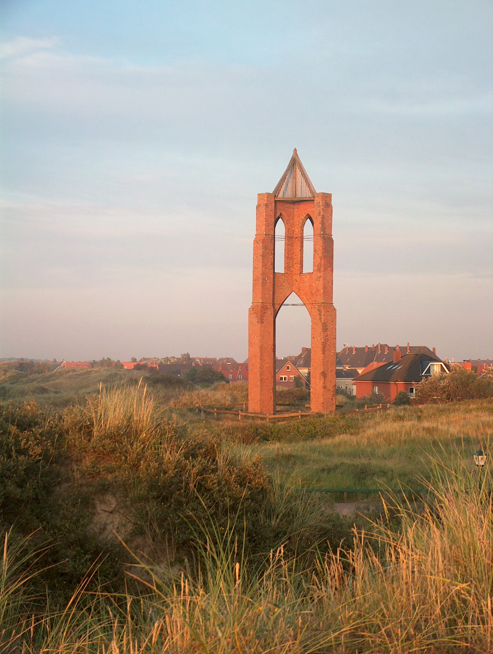 Historic nautic sign "Grosses Kaap", isle of Borkum, Germany